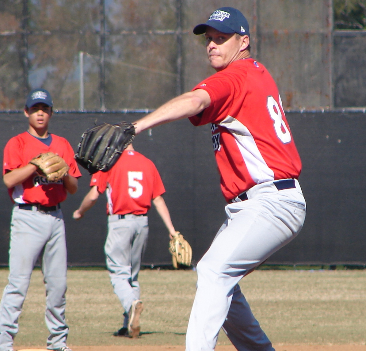 Chris Oxspring at the 2010 MLBAAP